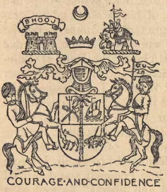 Coat of arms of the Indian princely state of KutchThe achievement of the Rao of Kachchh (formerly spelled Cutch or Kutch) following a description of the Diwan of Kutch from 1876 was: Arms: Quarterly: 1. The field of an off-white color, a trident per pale and a sword and an axe in saltire proper; 2. A sambuk on waves of the sea, all proper; 3. A holy cow in a landscape, all proper; 4. A killed tiger (depicted is a lion) in a landscape with a red sky, all proper. Over all a palmtree proper. Crest: On an iron helmet affronté, lambrequined Vert, the crown of Kachchh surmounted by a crescent Argent. Supporters: Two horsemen, the sinister carrying a pennon Tenné, charged with a crescent and a sun in splendour (the “Jari Patha” flag), all proper. Motto: courage and confidence in black lettering on a yellow ribbon. Badges: a. In dexter chief of the achievement: a castle ensigned bhuj. b. In sinister chief of the achievement: An elephant passant proper, his saddlecloth and headgear Gules, fringed Or. On his back two men (sowaris), the hindmost carrying the “Mahi Muratab” or Goldfishbanner.